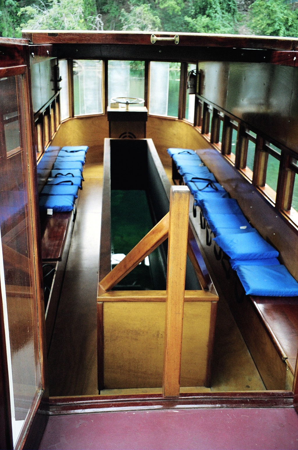 The interior of a glass bottom boat at Aquarena Springs located at 29.8942°, -97.9301°, San Marcos, Texas, United States.